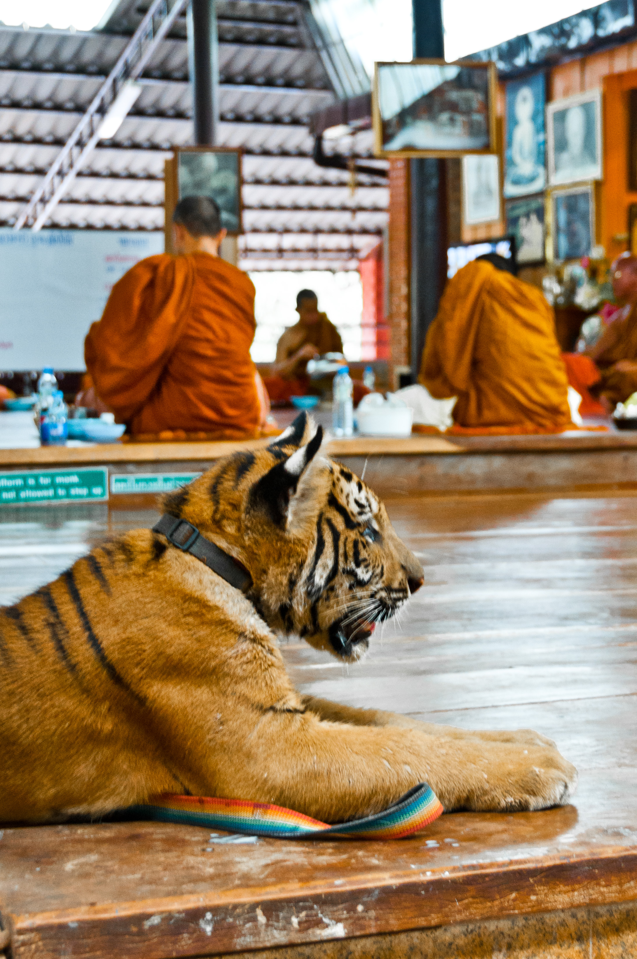 A young tiger sits while the monks eat breakfast at Wat Pha Luang Ta Bua, the famous "Tiger Temple" near Kanchanaburi, Thailand.